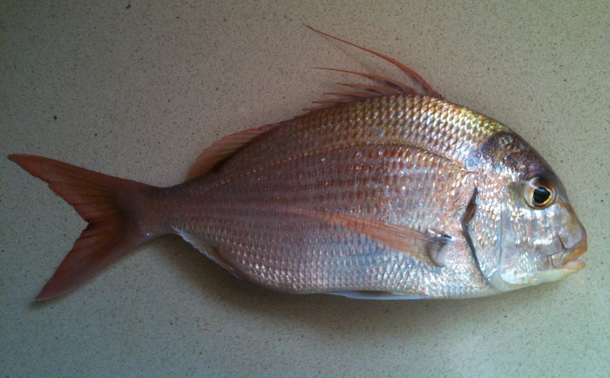 pagrus caeruleostictus (Bluespotted seabream) - caught in the Mediterranean Sea, israel. ספרוס מצוי, פארידה